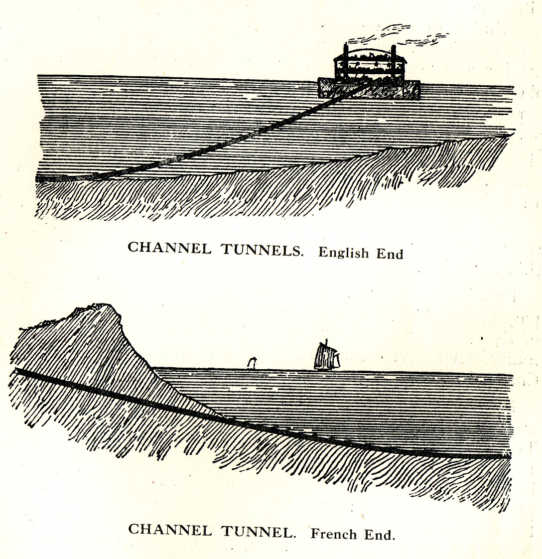 William Stanley's Channel Tunnel idea.